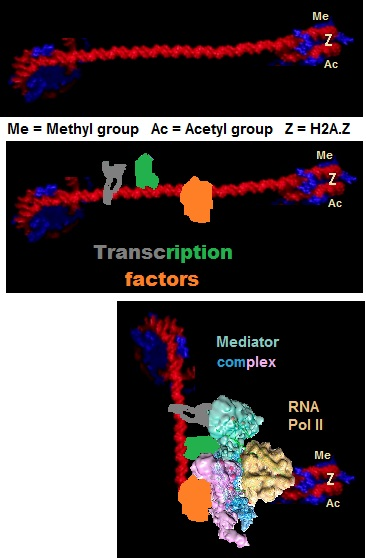 Some steps and components involved in formation of the transcription preinitiation complex